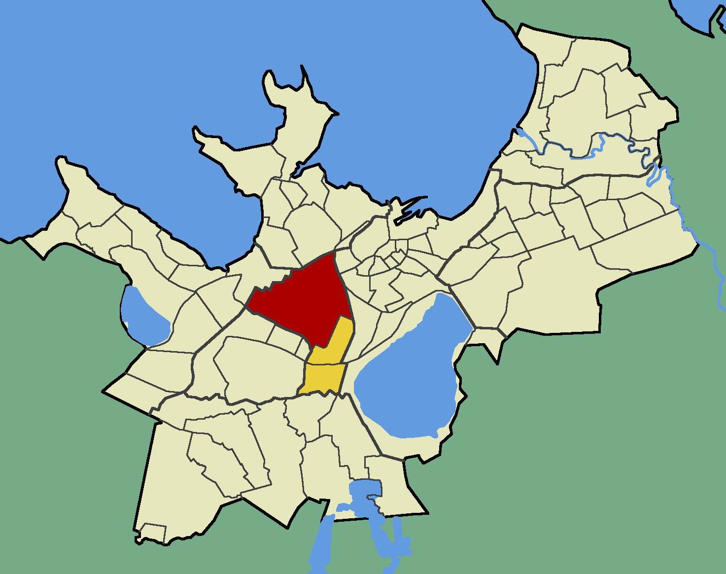 Map of Tallinn (Estonia) with borders of the quarters, Kristiine district and Lilleküla quarter emphasised